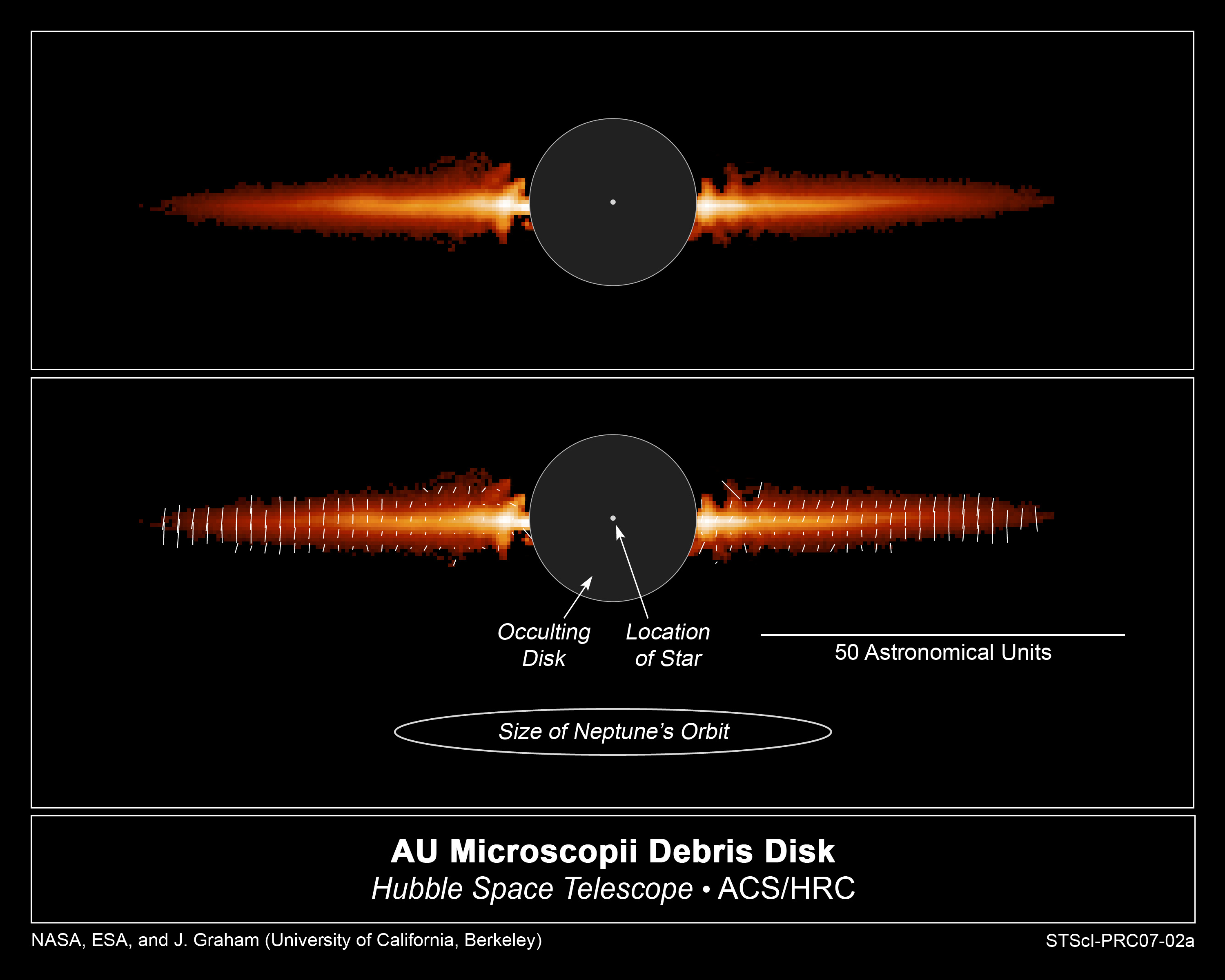 The top view, taken with NASA's Hubble Space Telescope, shows light reflected off dust in a debris disk around the young star AU Microscopii. The bottom frame labels features in this image, while the white lines on the disk indicate the light polarization direction. The image shows the flattened disk, appearing like Saturn's rings, but seen almost exactly edge-on. Normally, starlight would be so bright that the debris disk could not be seen. But astronomers used the coronagraph on Hubble's Advanced Camera for Surveys, which blocked out most of the starlight. The black circle in the center of the image is the coronagraph's occulting disk. The disk in this image extends to about 8 billion miles from the star, or three times farther than Neptune is from the Sun. In other observations, the disk has been traced to at least 11 billion miles.